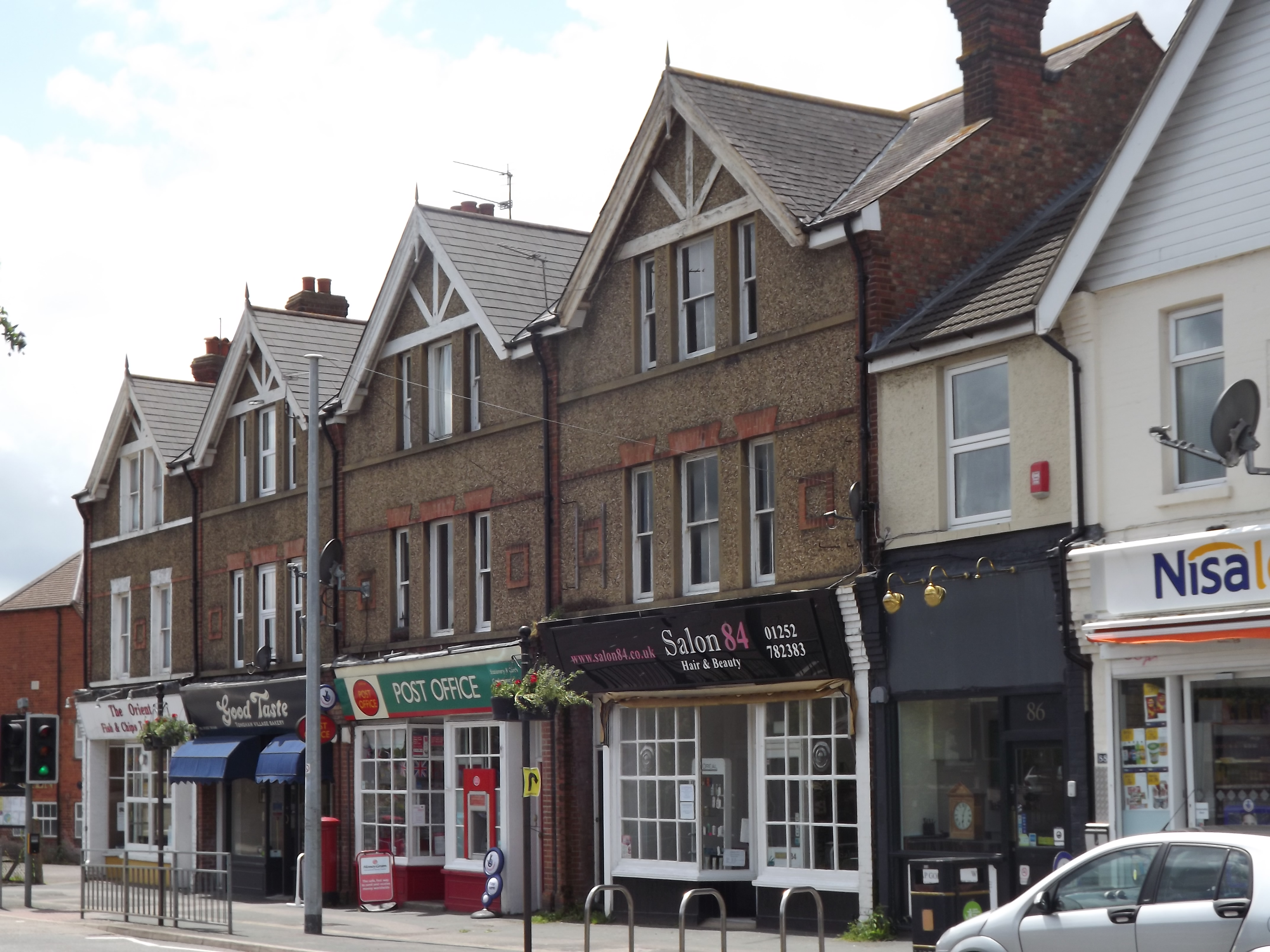 Tongham Shops